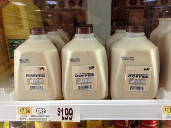 Arrudas brand coffee milk in the dairy case of a supermarket in Westport Massachusetts.